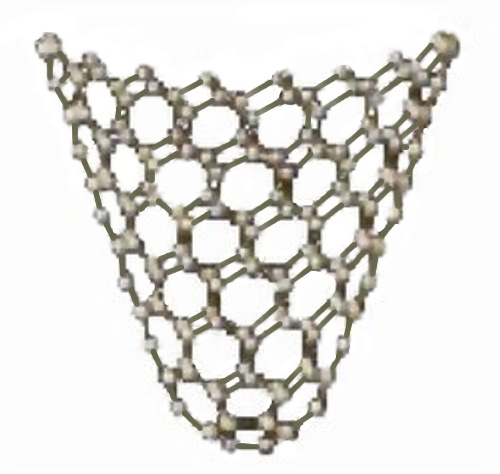 Atomic model of a carbon nanocone with an apex angle of 38.9°.